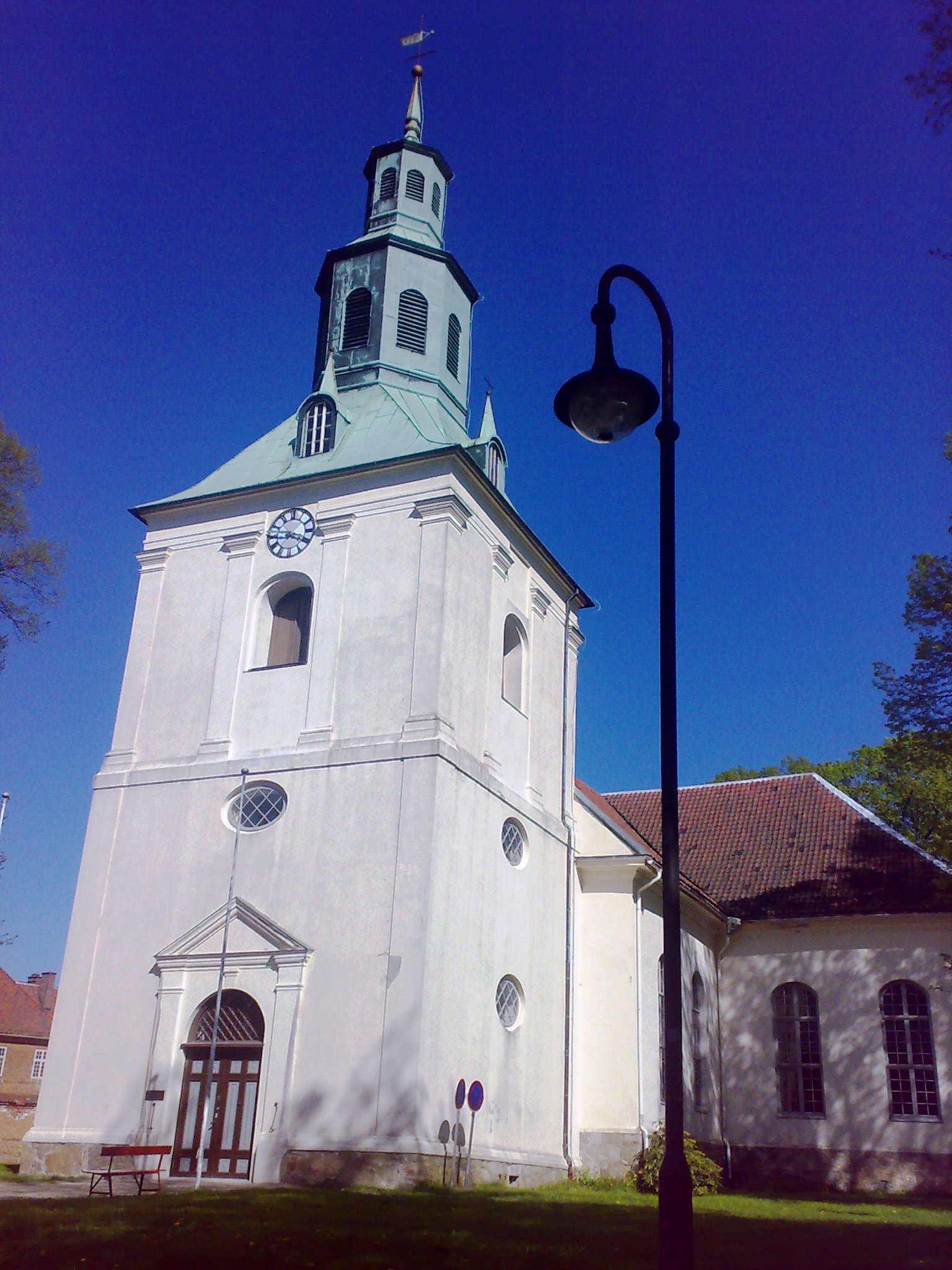 Østre Fredrikstad kirke, Gamlebyen, Fredrikstad (Norway).